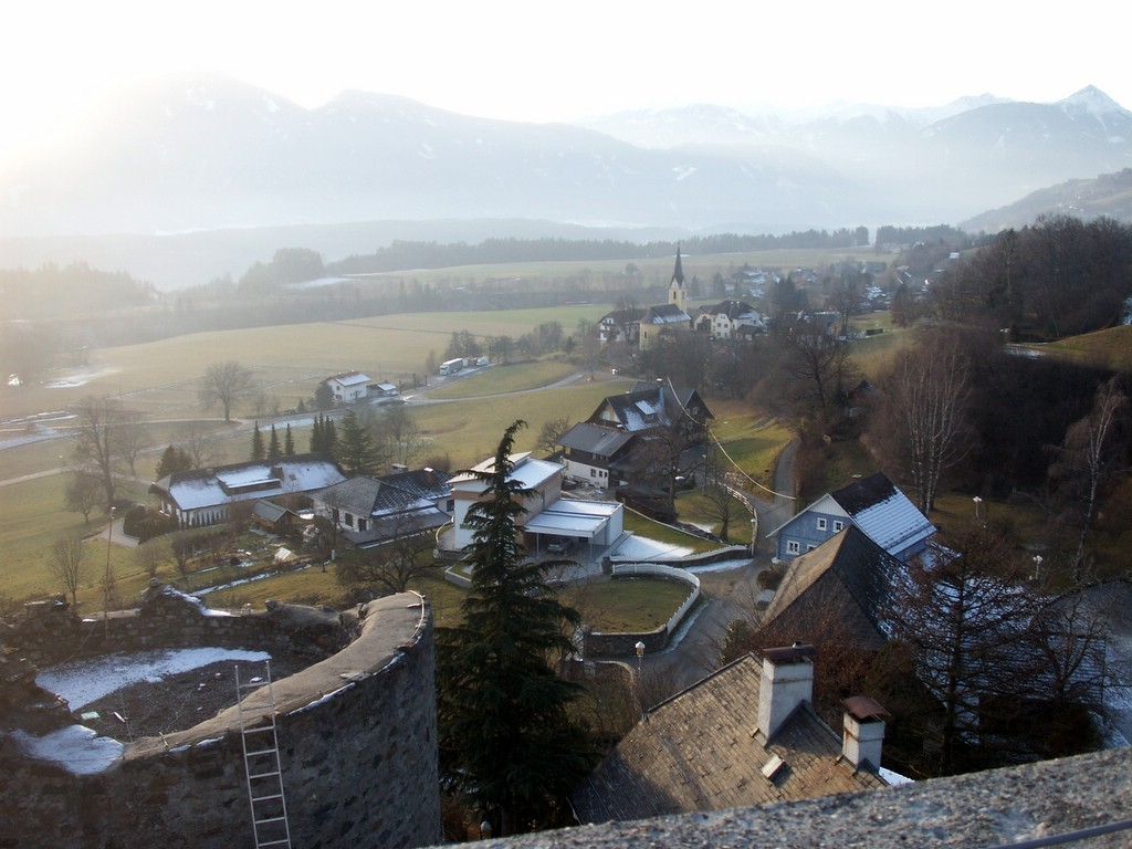 View from the Castle Sommeregg to Unterhaus in the town of Seeboden near lake Millstatt (illstätter See) / Spittal an der Drau / Carinthia / Austria / Central Europe.